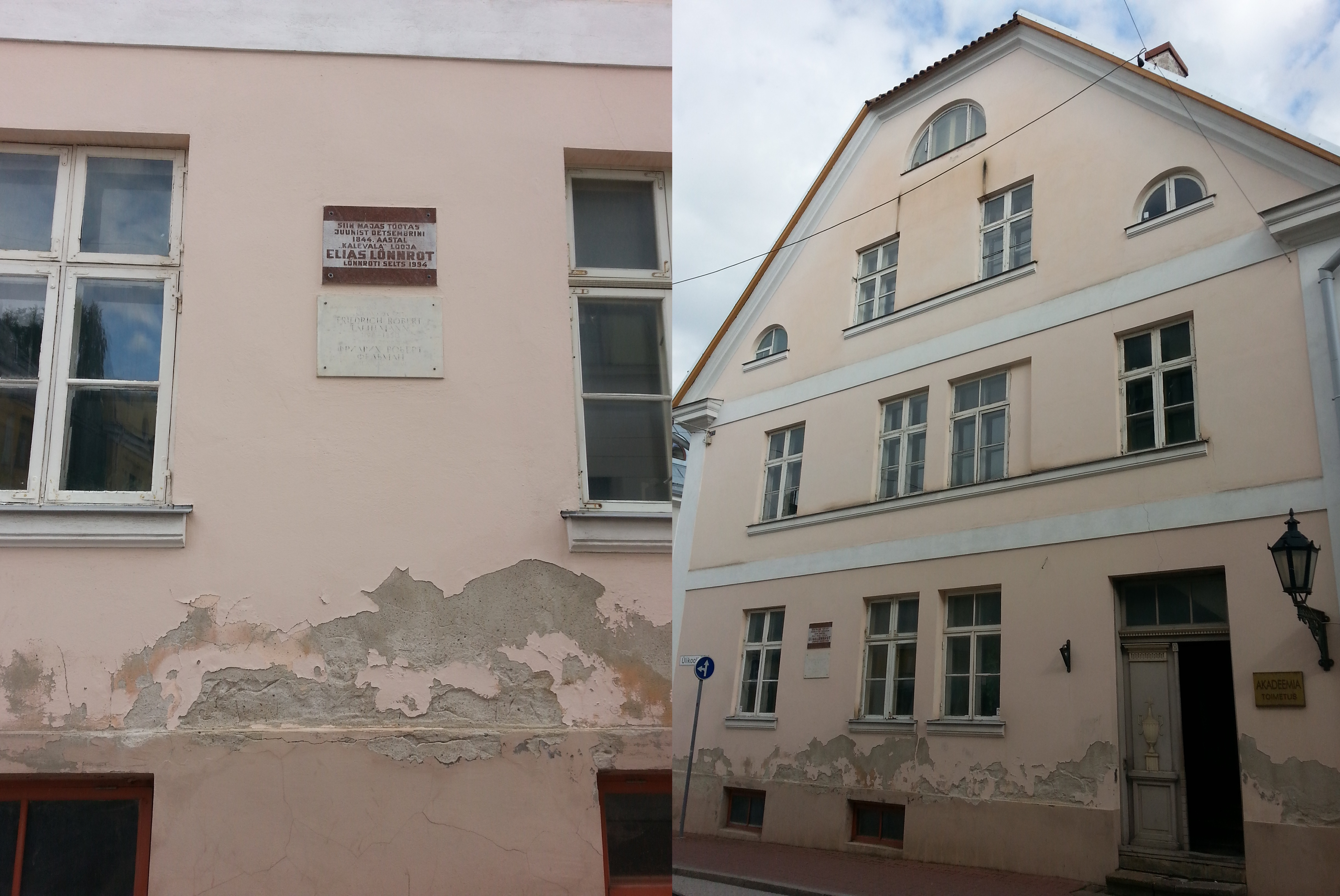 The house of Friedrich Robert Faehlmann, where Elias Lönnrot worked and visited during his stay in Tartu 1844.